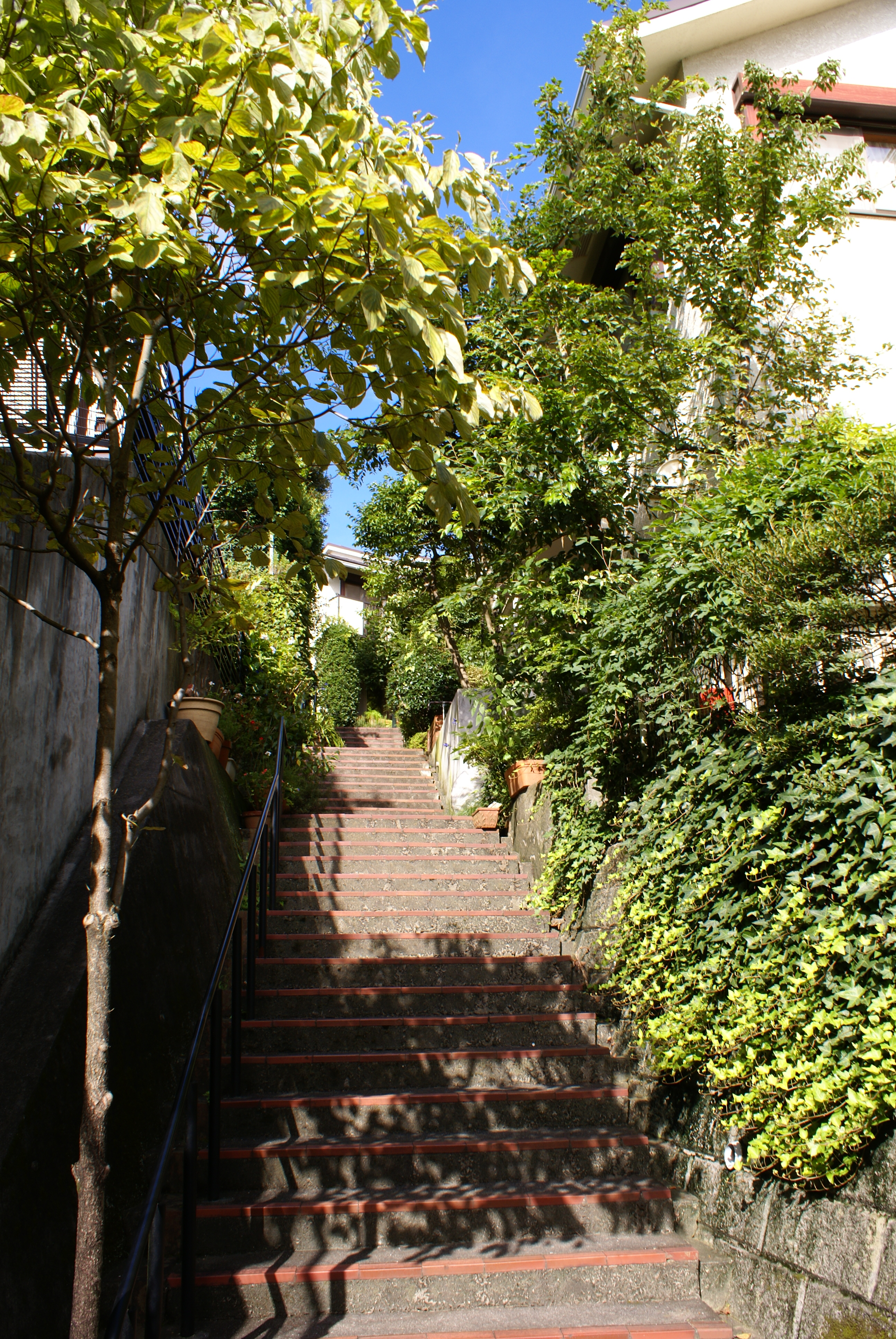 Hani no oka